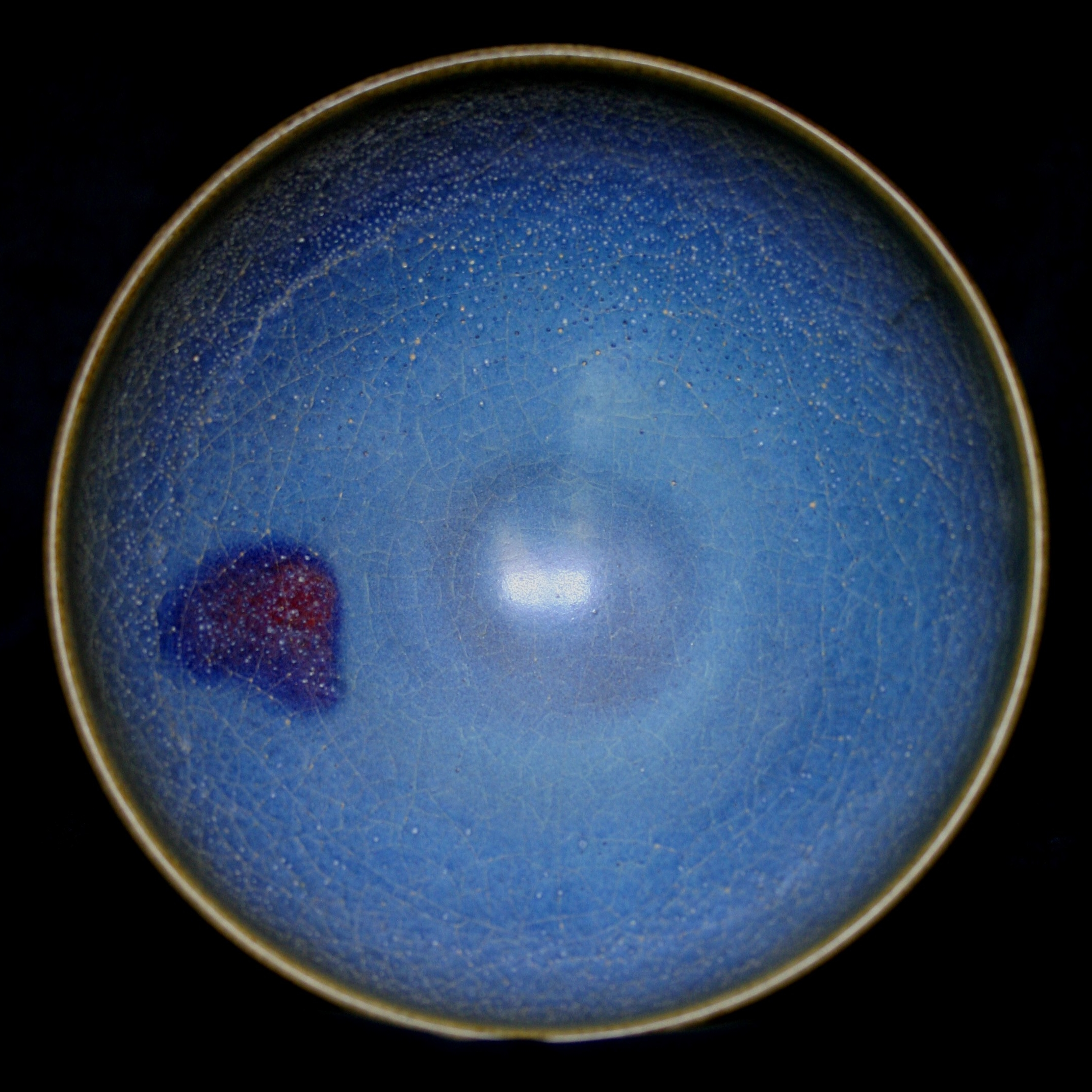 Yuan period Jun bowl